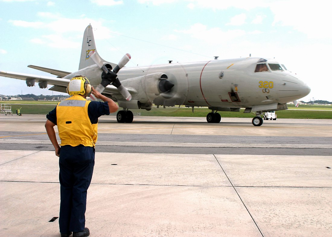 Okinawa, Japan (Mar. 11, 2005) - Airman Lawrence Than salutes a P-3C Orion, assigned to the “Tigers” to Patrol Squadron Eight (VP-8), prior to take-off in Okinawa, Japan. VP-8 is home-based in Brunswick, Maine and is currently on deployment to Okinawa, Japan. Originally designed as a land-based, long-range, anti-submarine warfare (ASW) patrol aircraft, the P-3C's mission has evolved in the late 1990s and early 21st century to include surveillance of the battle-space, either at sea or over land. Its long range and long loiter time have proved invaluable assets during Operation Iraqi Freedom (OIF) as it can view the battle-space and instantaneously provide that information to ground troops, especially U.S. Marines. source